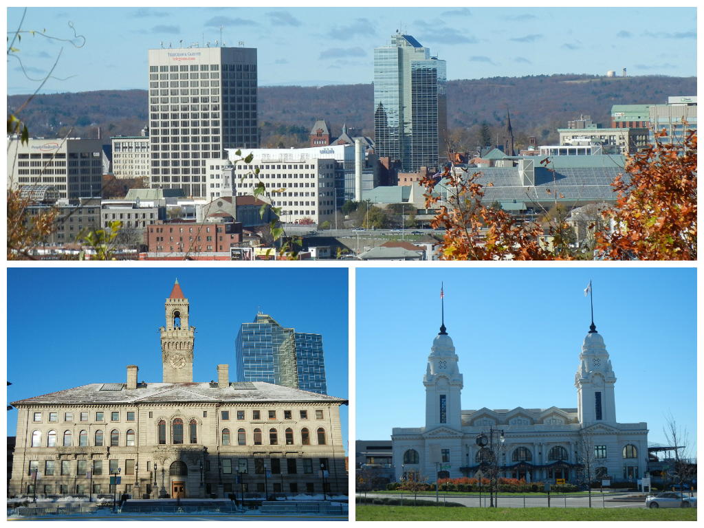 Montage of Worcester, Massachusetts, USA with (clockwise from top) Skyline of Worcester, Union Station and City Hall